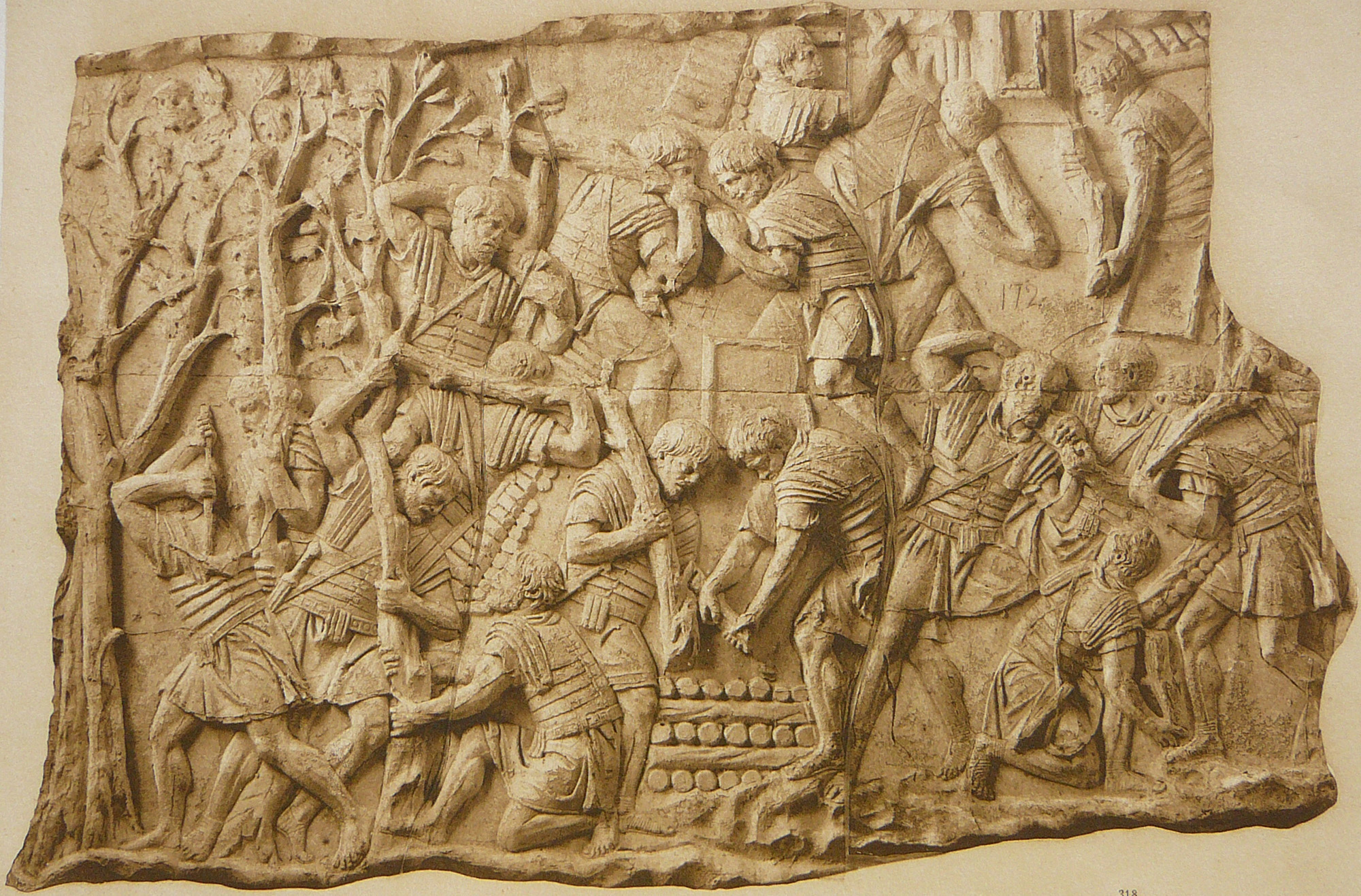 Preparations for a blockade (scene CXVII)